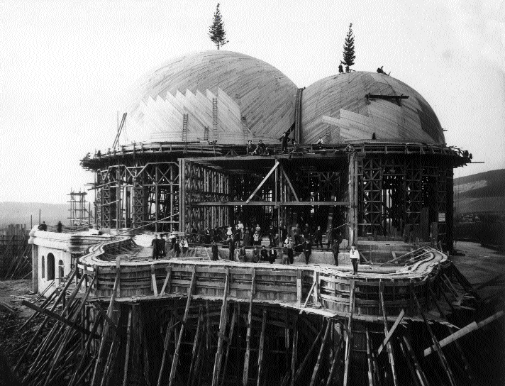 The Goetheanum during construction work 1914, Dornach near Basel, Switzerland (retouched version: upper stripe of sky; imprinted date and some spots removed; cropped to mod-8 sitzes; the removed lines: "1. April 1914" and "No. 27."; and little diffuse probably the bottom line "C.(?) Rietmann. Depos(e ?)")